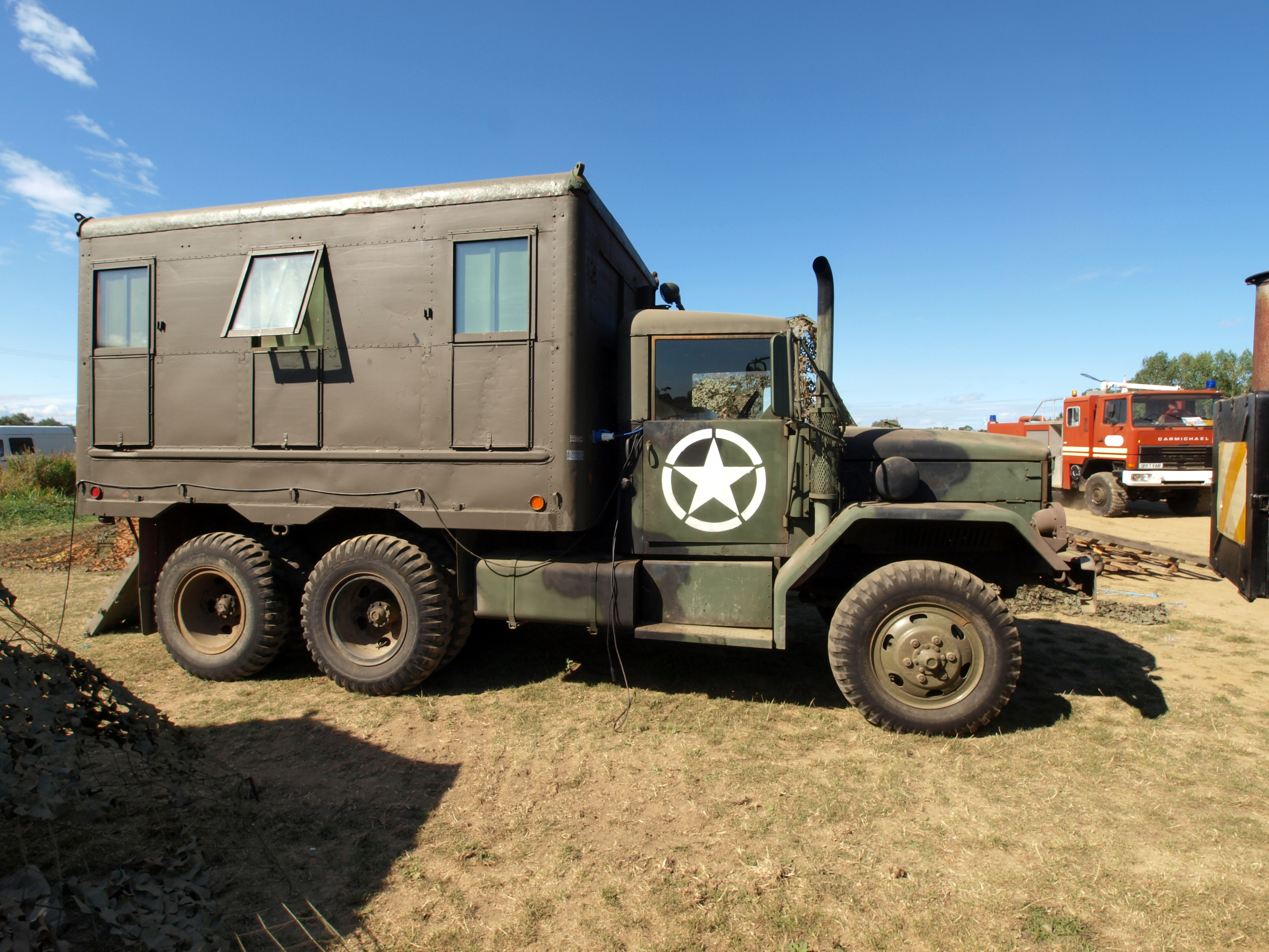 M-109A2 Shop Van